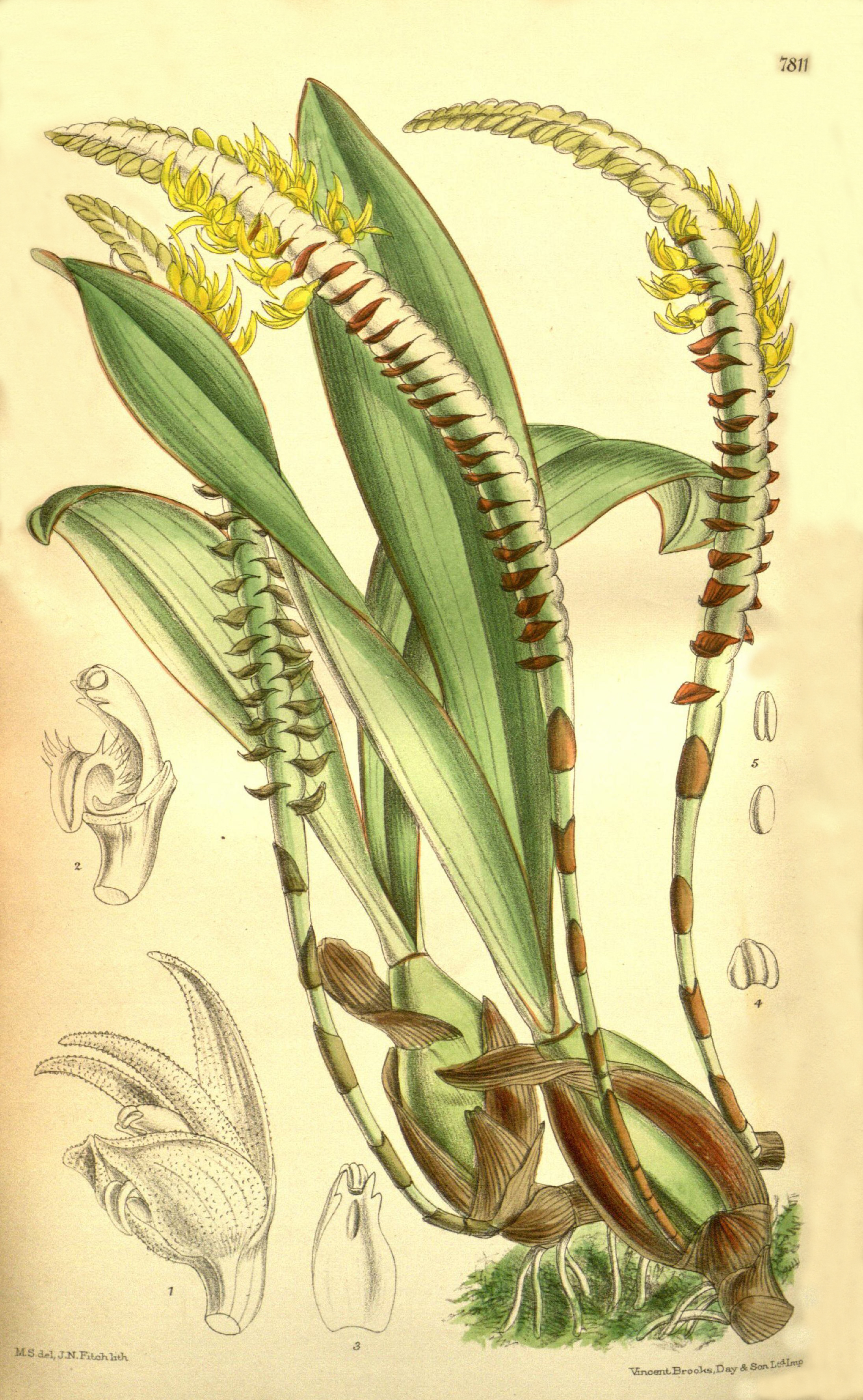 Illustration of Bulbophyllum imbricatum (as syn. Megaclinium leucorhachis)